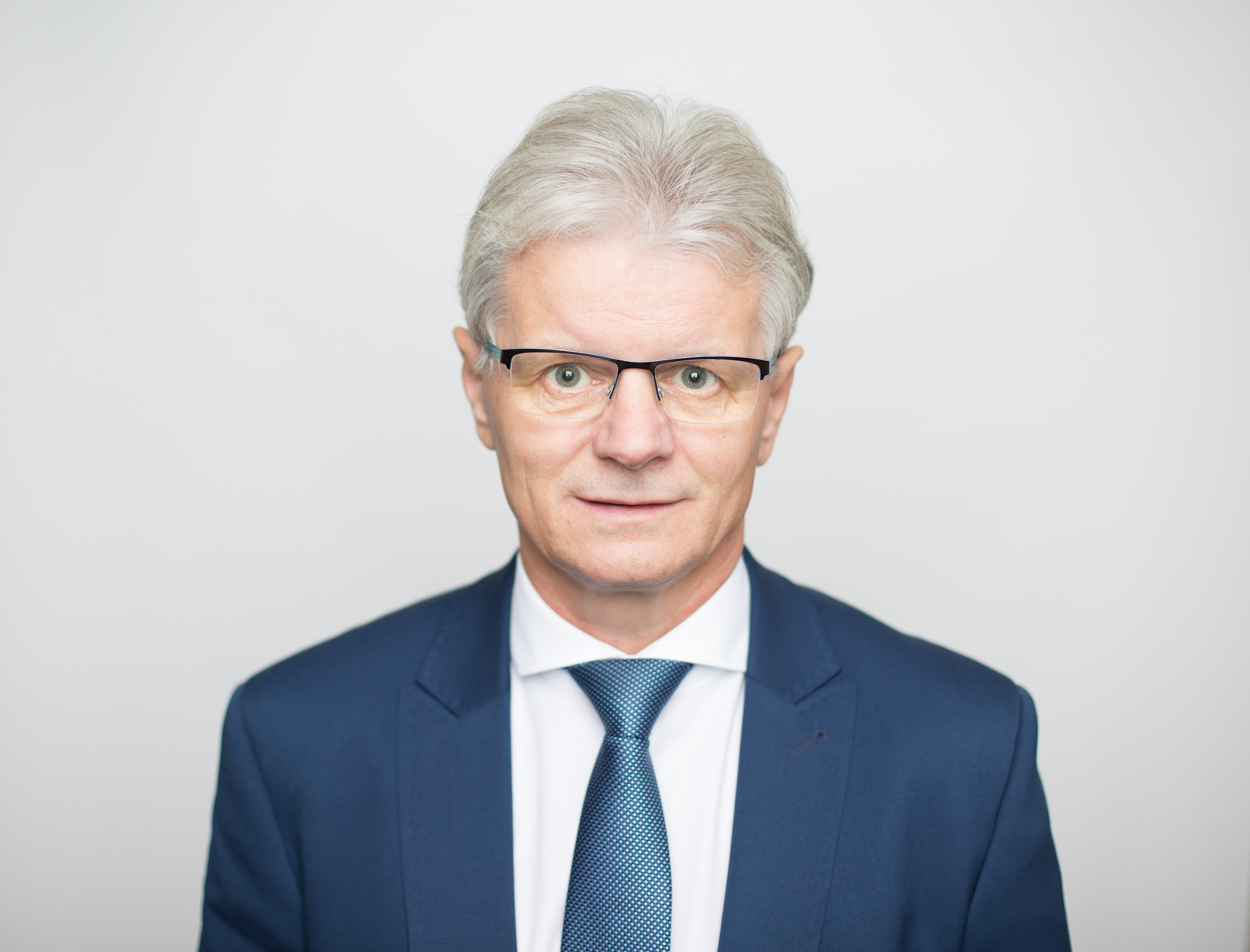 Herbert Pavera is from 2018 member of the Senate of the Parliament of the Czech Republic